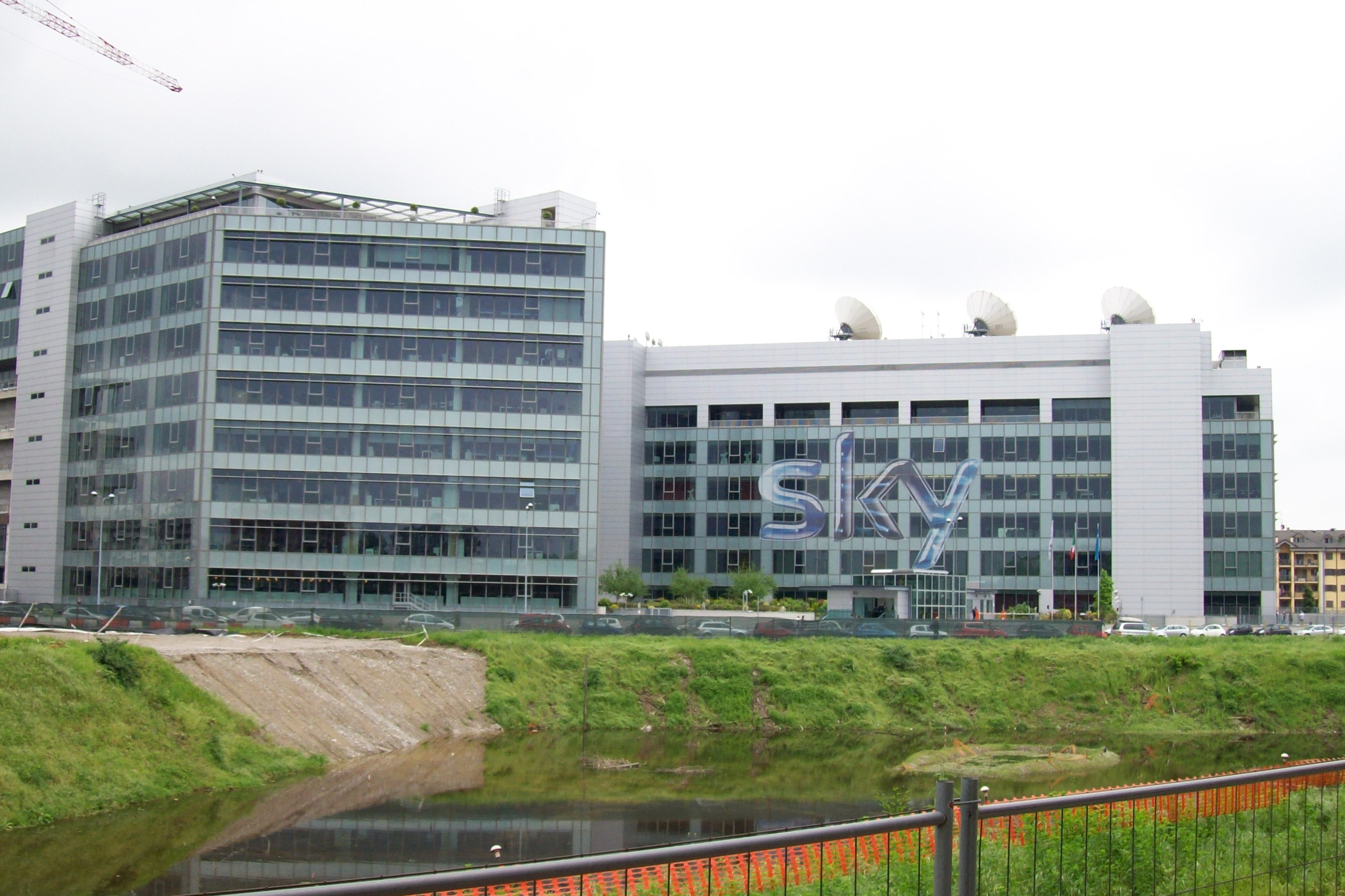 The headquarter of the satellite TV broadcaster Sky Italia in Milan